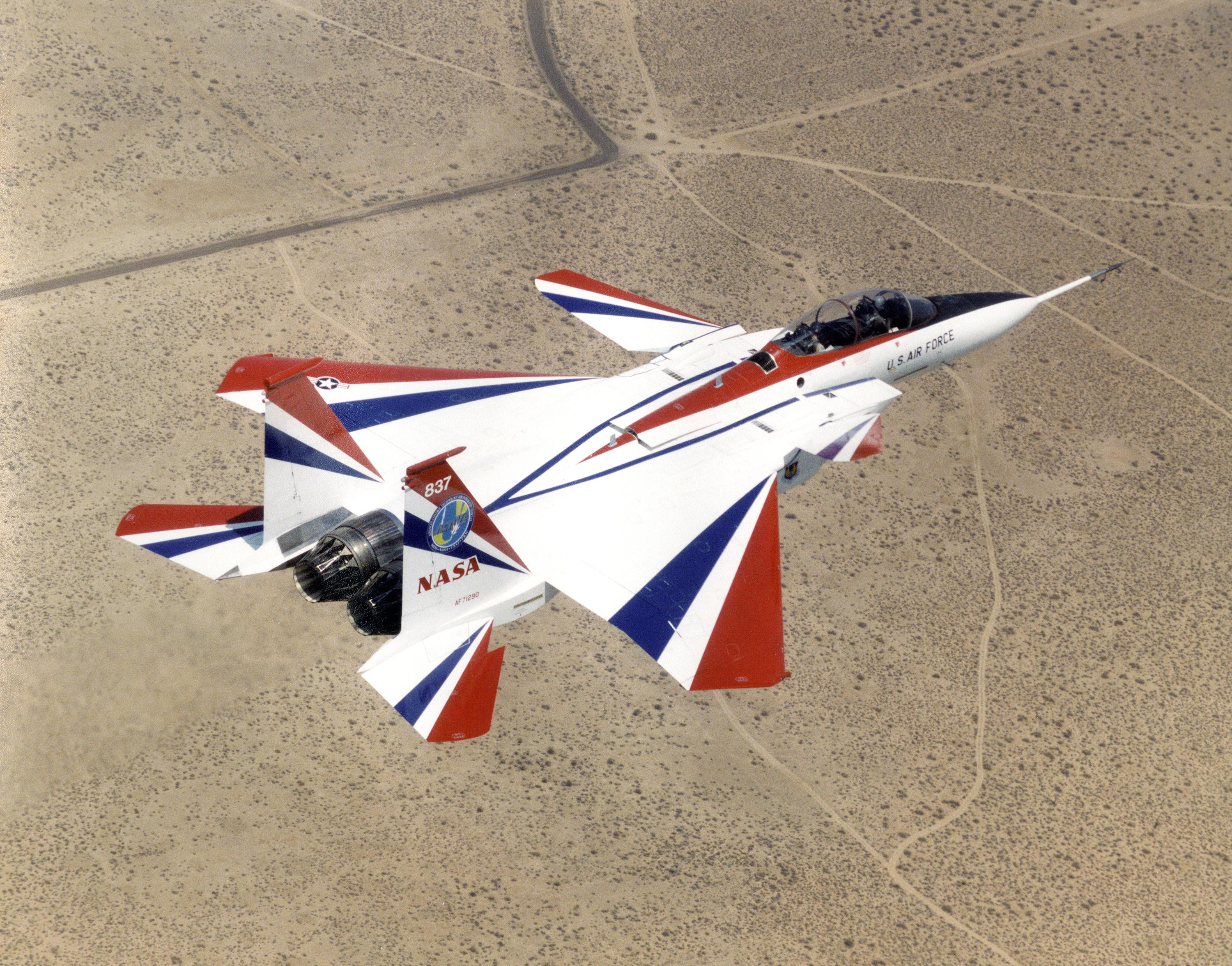 The F-15 ACTIVE in flight over the Mojave desert during a High Stability Engine Control (HISTEC) flight. The twin-engine F-15 is equipped with new Pratt & Whitney nozzles that can turn up to 20 degrees in any direction, giving the aircraft thrust control in the pitch (up and down) and yaw (left and right) directions. On March 27, 1996, NASA began flight testing a new thrust-vectoring concept on the F-15 research aircraft to improve performance and aircraft control. The new concept should lead to significant increases in performance of both civil and military aircraft flying at subsonic and supersonic speeds. NASA pilot Rogers Smith and photographer Carla Thomas fly the F-18 chase to accompany the flight.